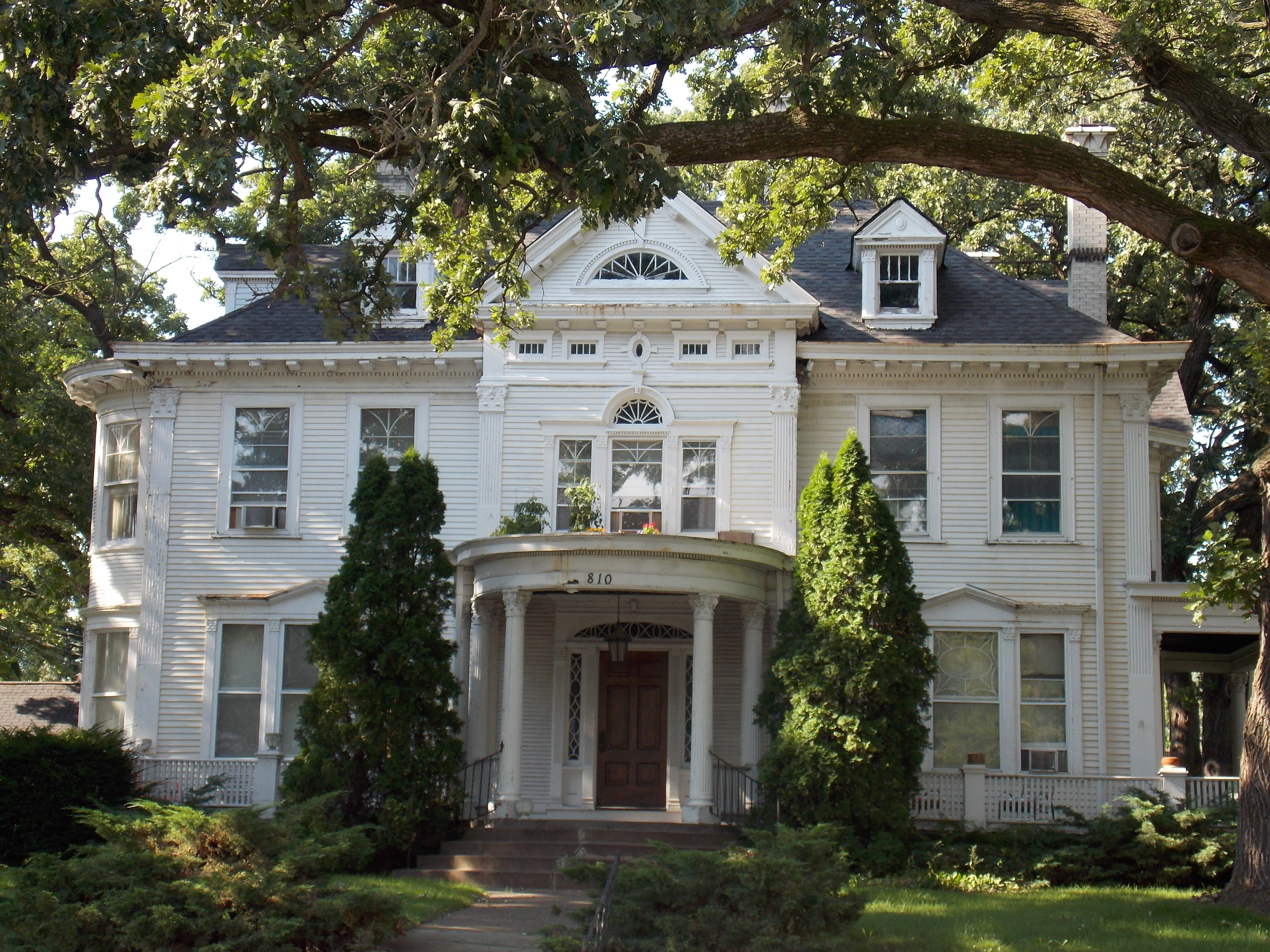 The George S. Johnson House in Davenport, Iowa is a contributing property in the Oak Lane Historic District.